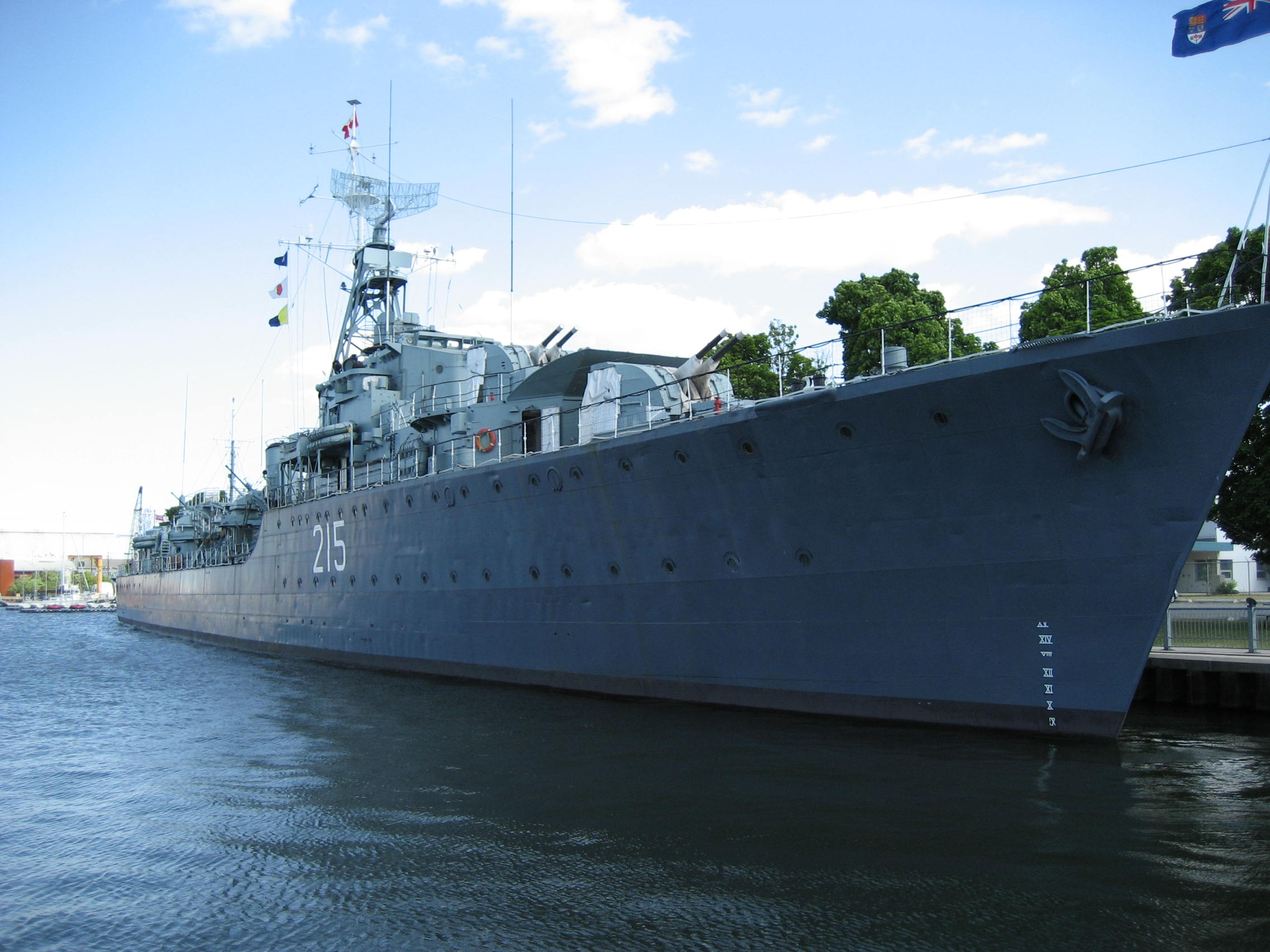 HMCS Haida, Pier 9, Hamilton, Ontario